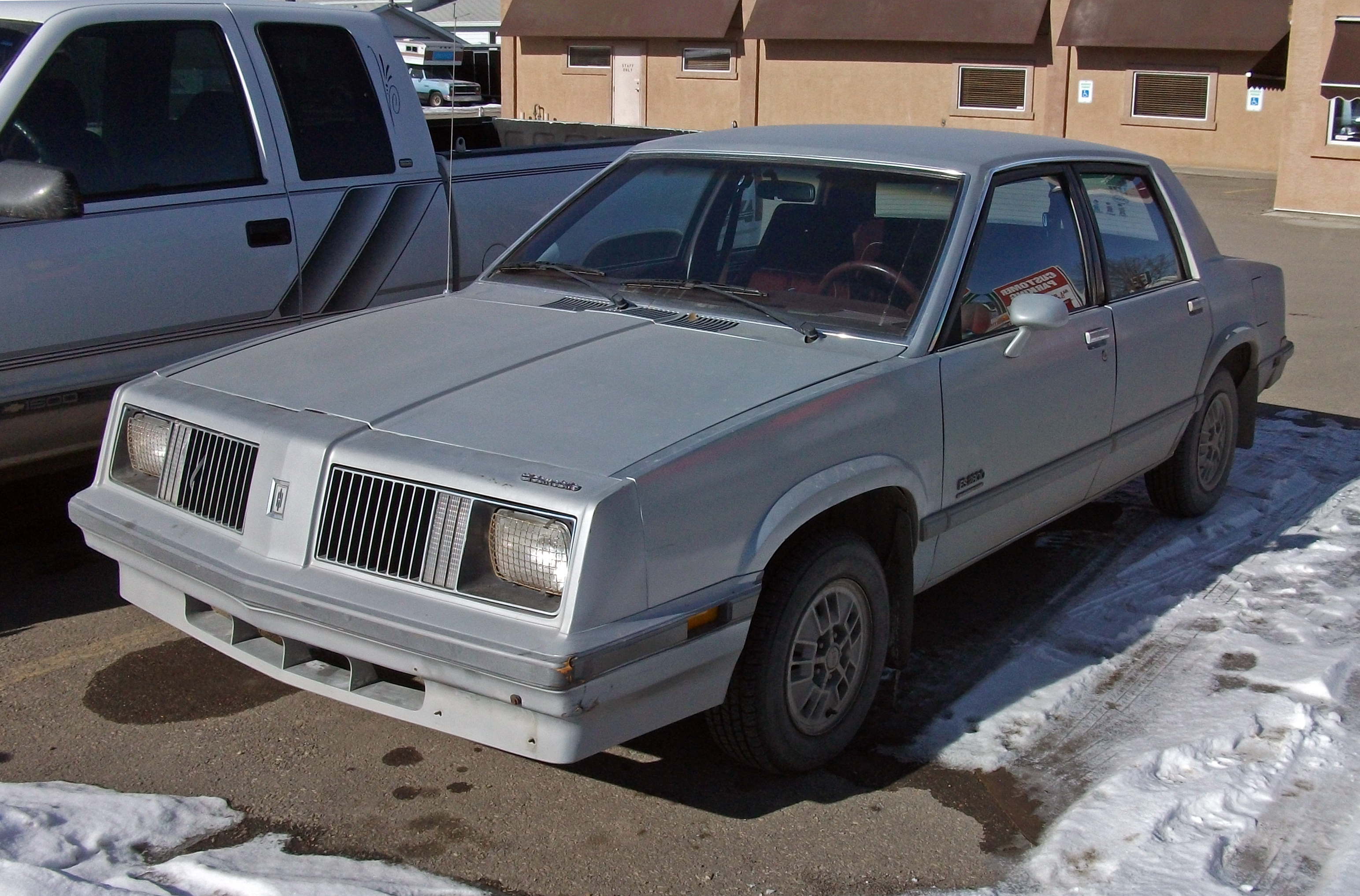 The Omega was Oldsmobile version of the X-car and the ES was the sporty version. ES 2800 meant this example sports the 2.8L 60 degree V6 engine.